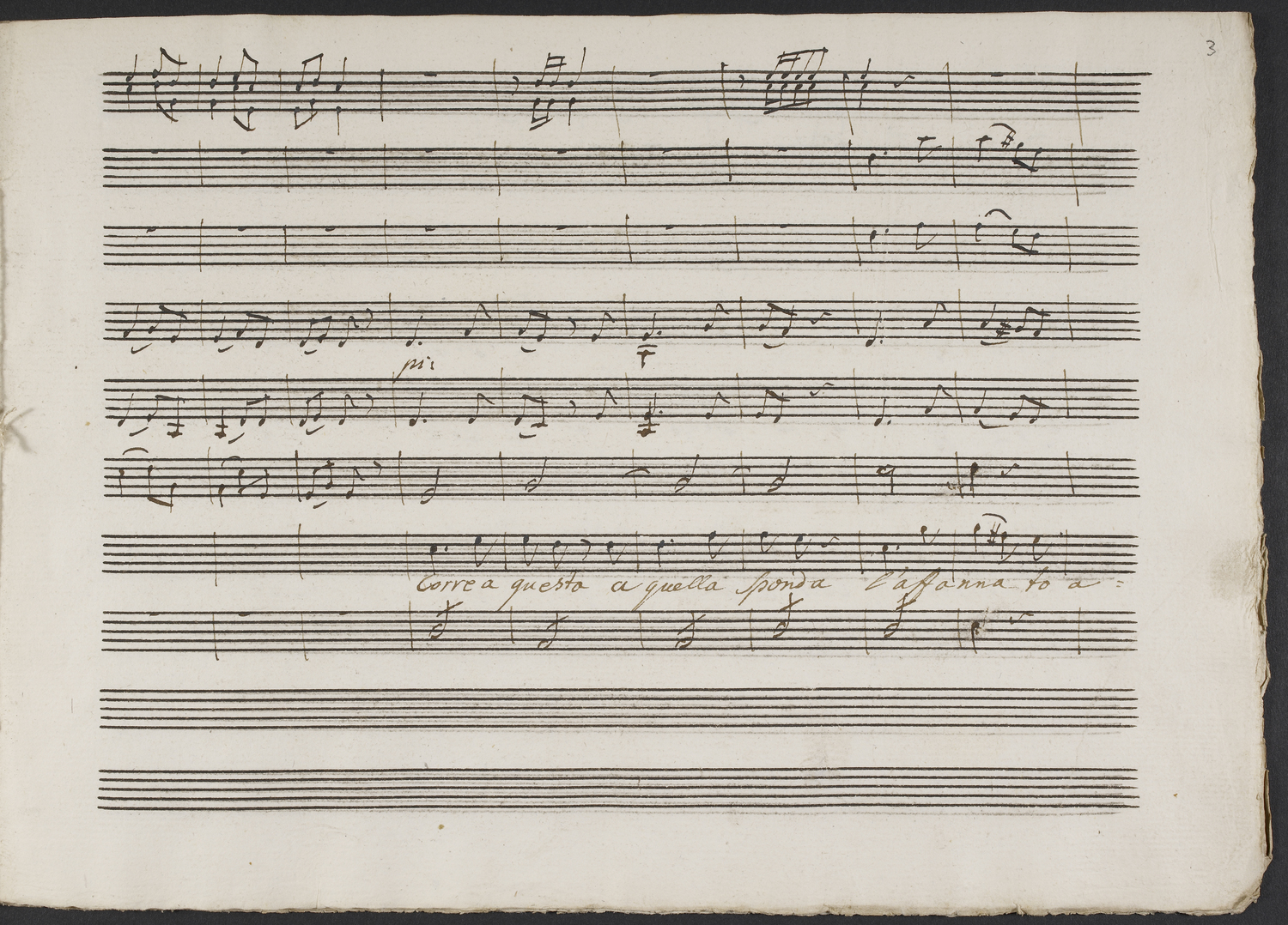 Joanna. In the composer's hand.